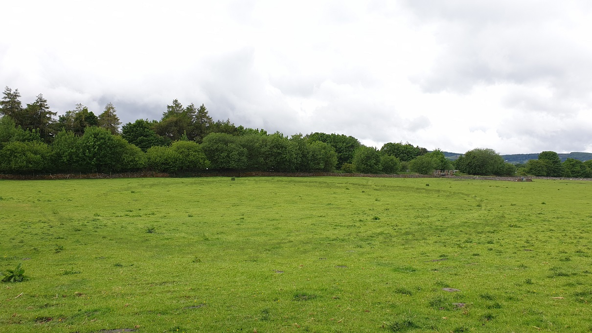 Staden Low Enclosure near Buxton, Derbyshire